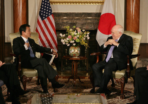 Dick Cheney meets with Taro Aso